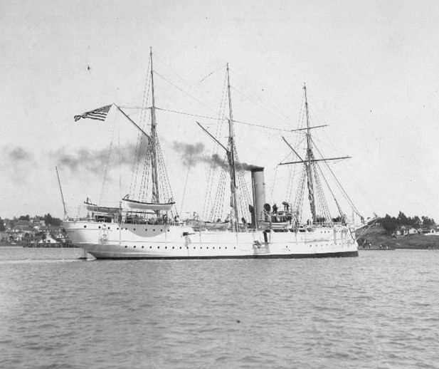 USRC McCulloch, circa 1900 - cropped NH 46474 This file is a work of a sailor or employee of the U.S. Navy, taken or made as part of that person's official duties. As a work of the U.S. federal government, the image is in the public domain. This file has been identified as being free of known restrictions under copyright law, including all related and neighboring rights.